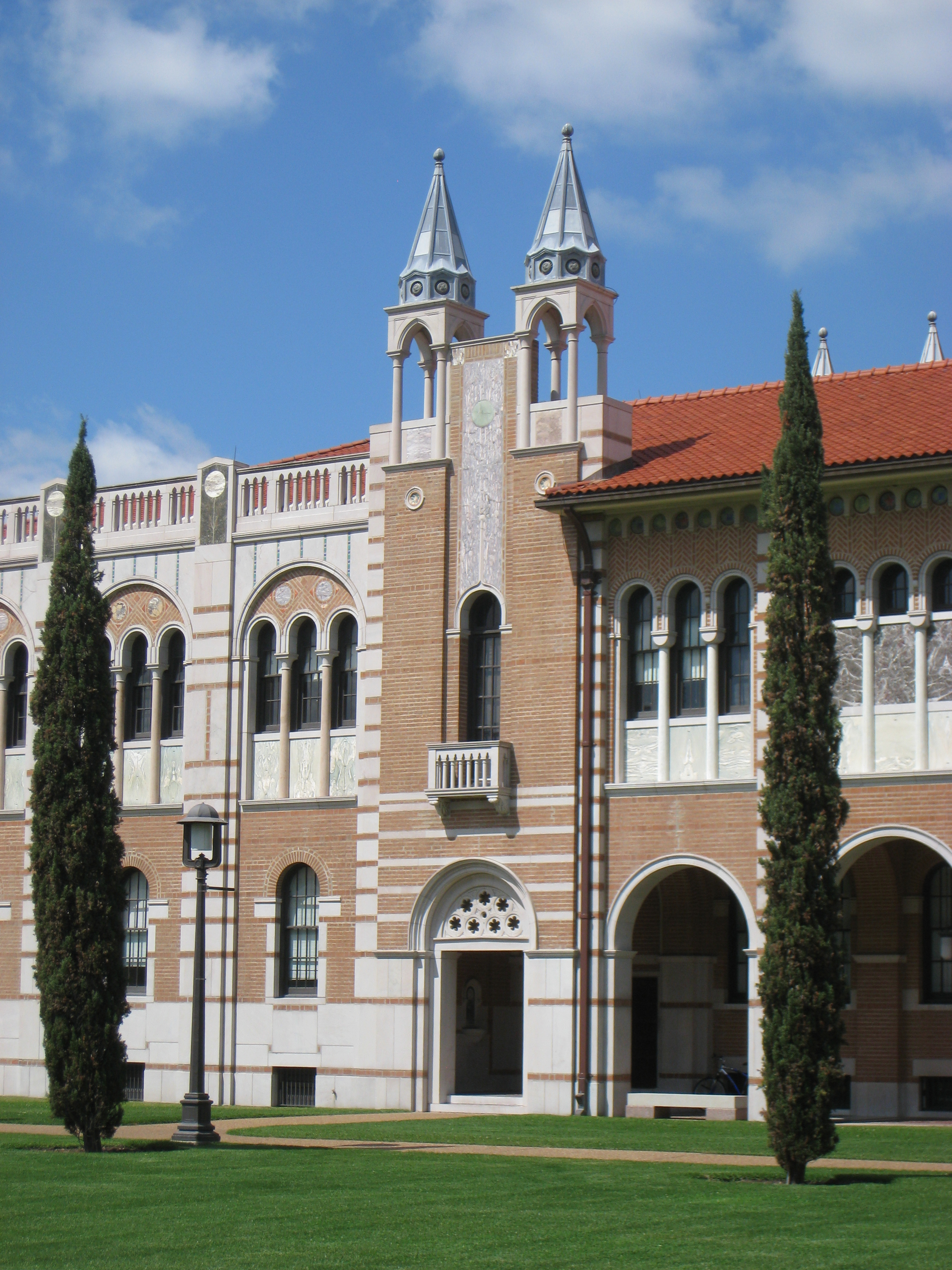 Rice University, Houston, Texas, USA - detail of main quad.